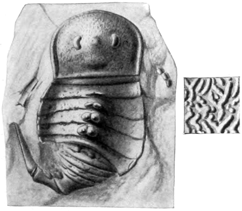 Figure 43 Tylopterus boylei (Whiteaves). Holotype refigured in natural size, and enlargement of sculpture of carapace The Eurypterida of New York. Volume 1. New York State Museum Memoir 14, figure 42